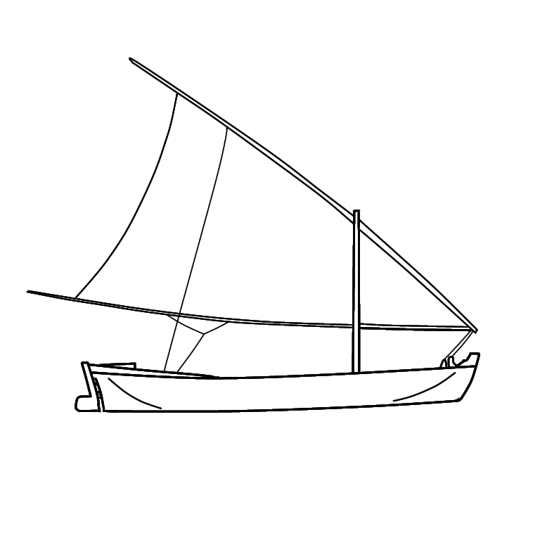 A 2D drawing of a Balinese janggolan. It is based on a photo by Adrian Horridge.